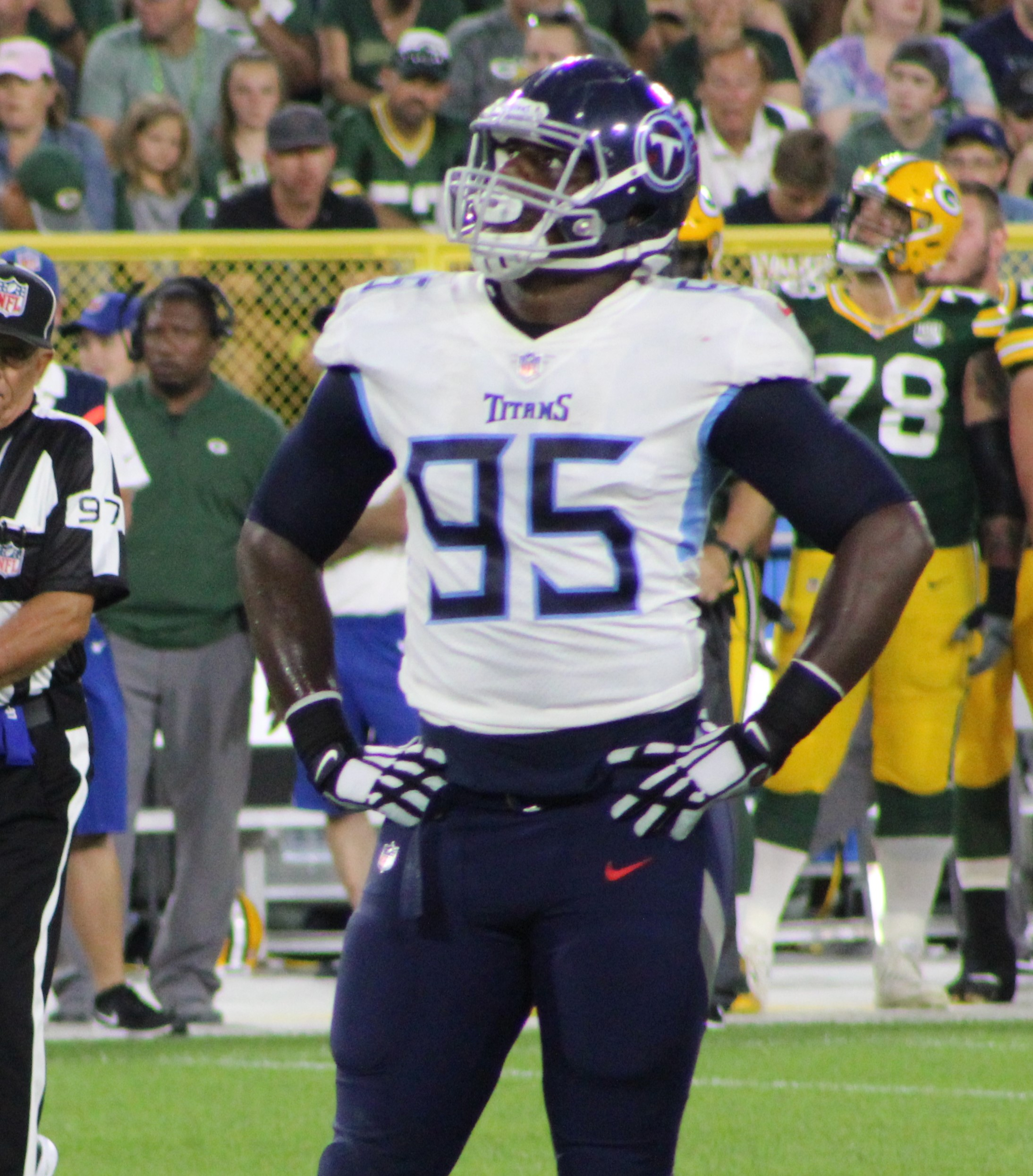 David King, Tennessee Titans at Green Bay Packers (Preseason), August 9, 2018